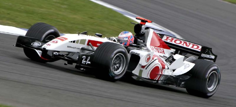 Jenson Button driving for British American Racing at the 2005 British Grand Prix.